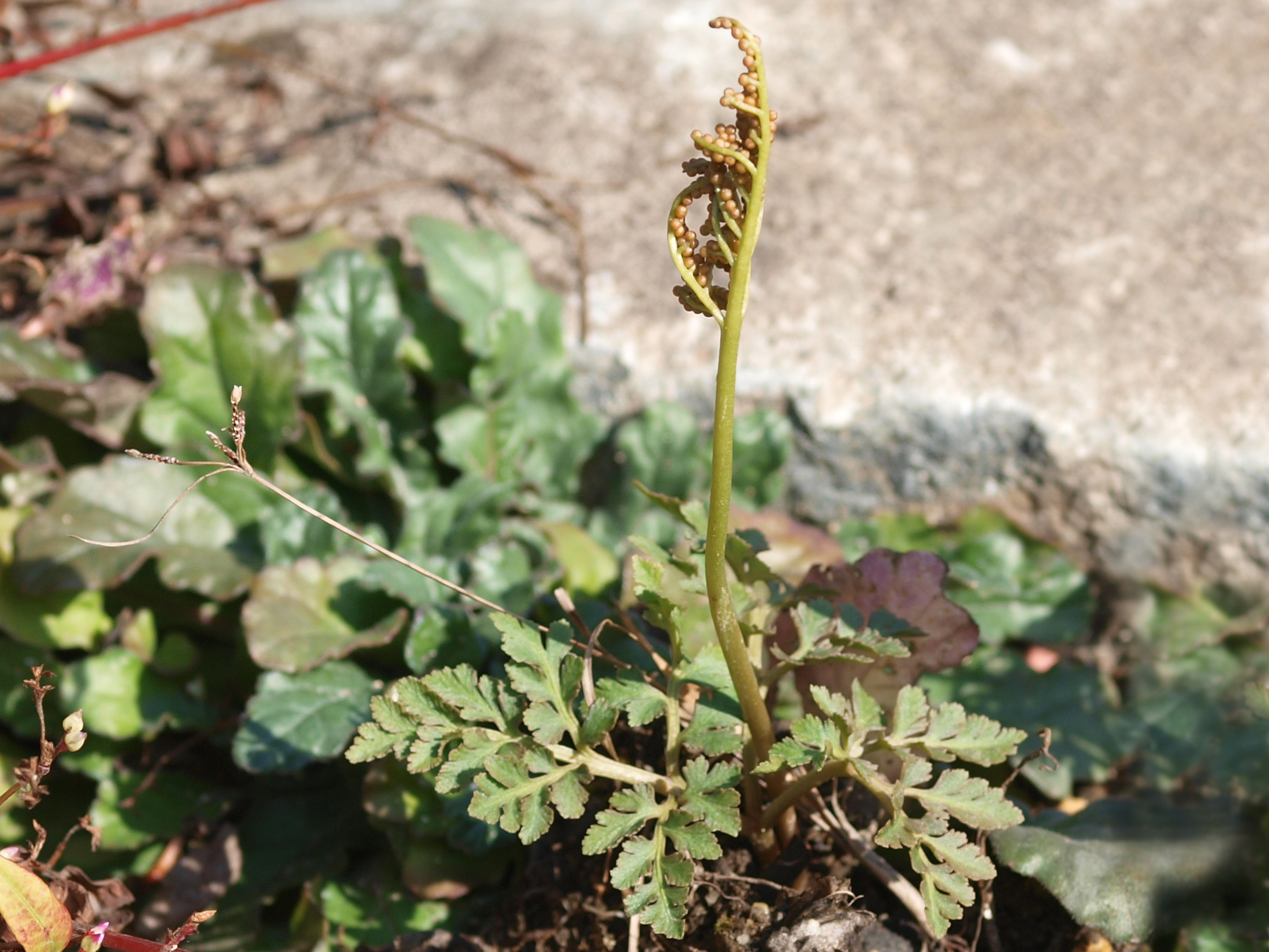 Botrychium rugulosum - Ternate grapefern